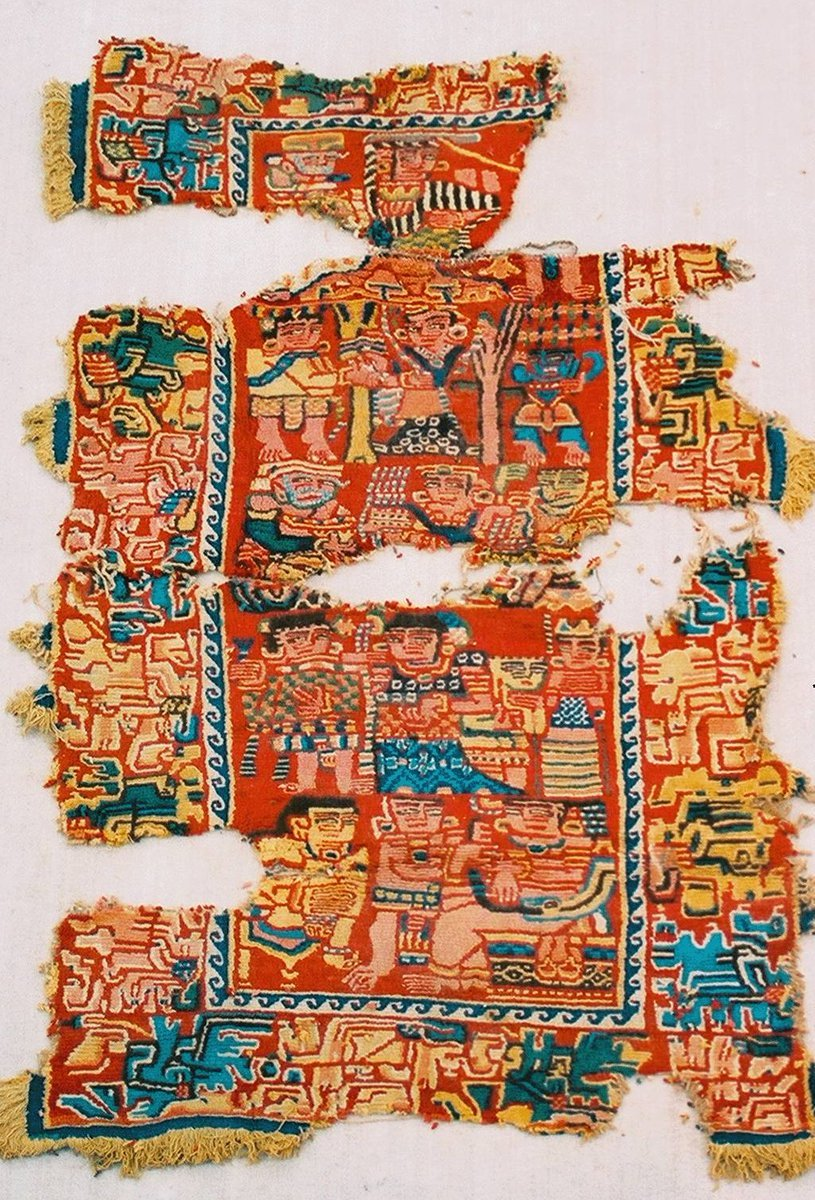 A 5th- or 6th-century knotted wool carpet discovered at Sampul, Lop, Sinkiang believed to be depicting a a part of the Story of Gilgamesh. Historically, Sinkiang was a part of the Kingdom of Khotan which was founded by the Scythians/Saka. It is possible that the Story of Gilgamesh transferred down through the Scythian people. Duan Qing at Peking University identifies the depiction as relating to Gilgamesh (Across-Regional and Local Characteristics of Mythologies: On the Basis of Observing the Lop Museum Carpets). One other theory proposed by Zhang He is that they may depict Krishna instead (Krsna Iconography in Khotan Carpets: Spread of Hindu Religious Ideas in Xinjiang, China, Fourth–Seventh Centuries CE).